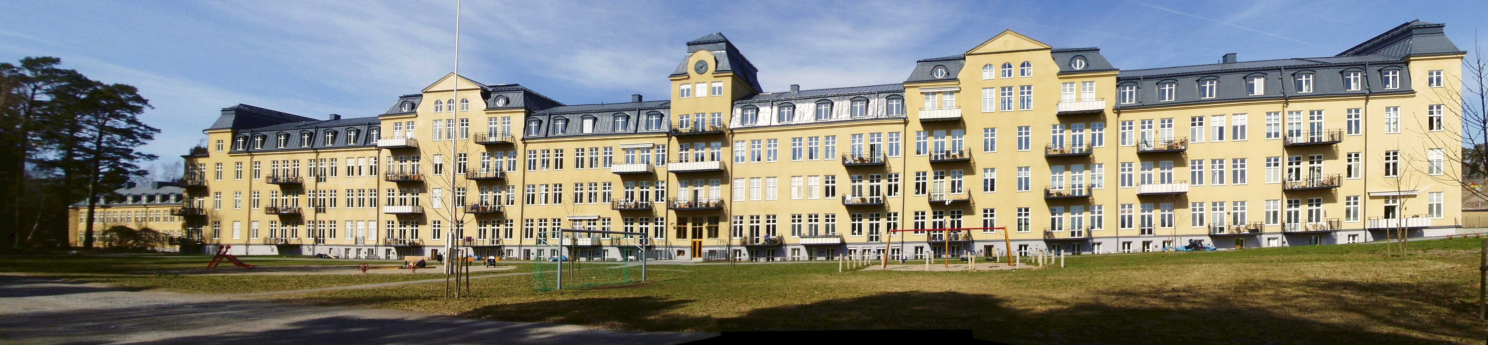 Former hospital Söderby, Salem municipality, Sweden